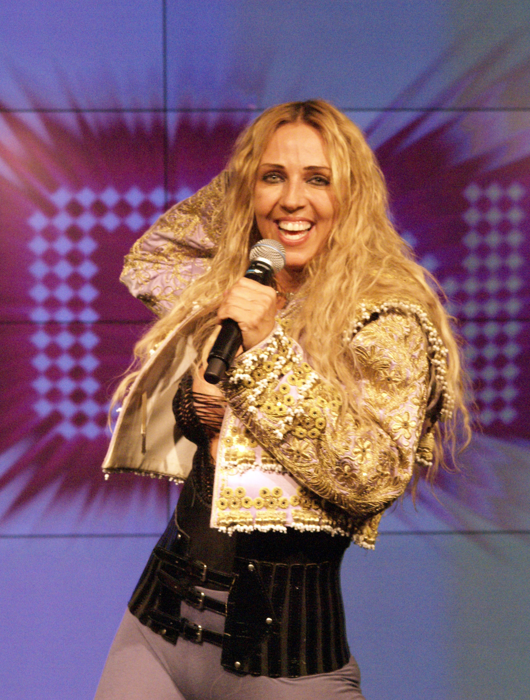 Dutch singer Loona (Marie-Jose van der Kolk) performing at the Westside shopping and leisure complex in Bern, Switzerland, June 12 2009.